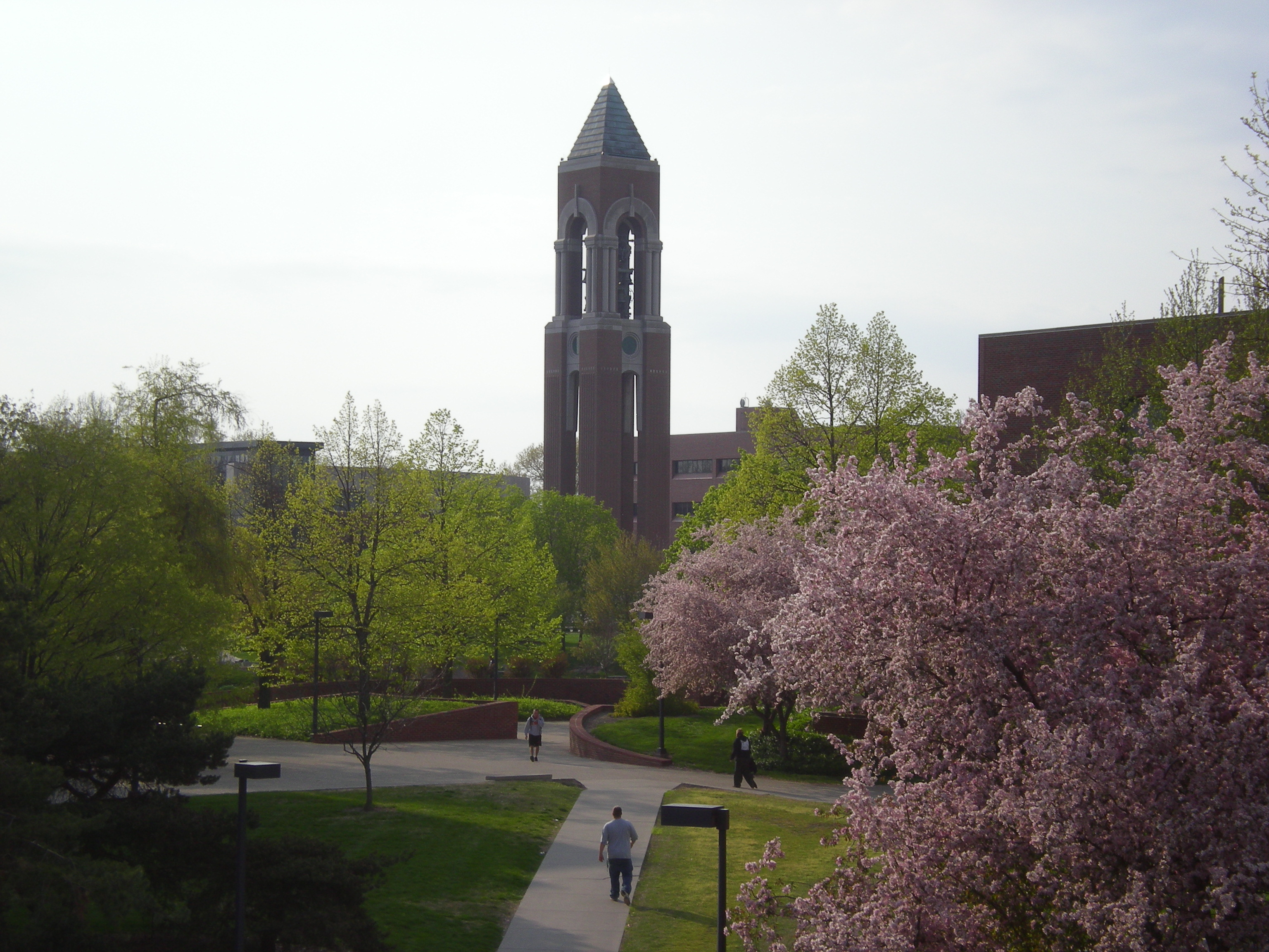 Ball State Shafer Tower and campus